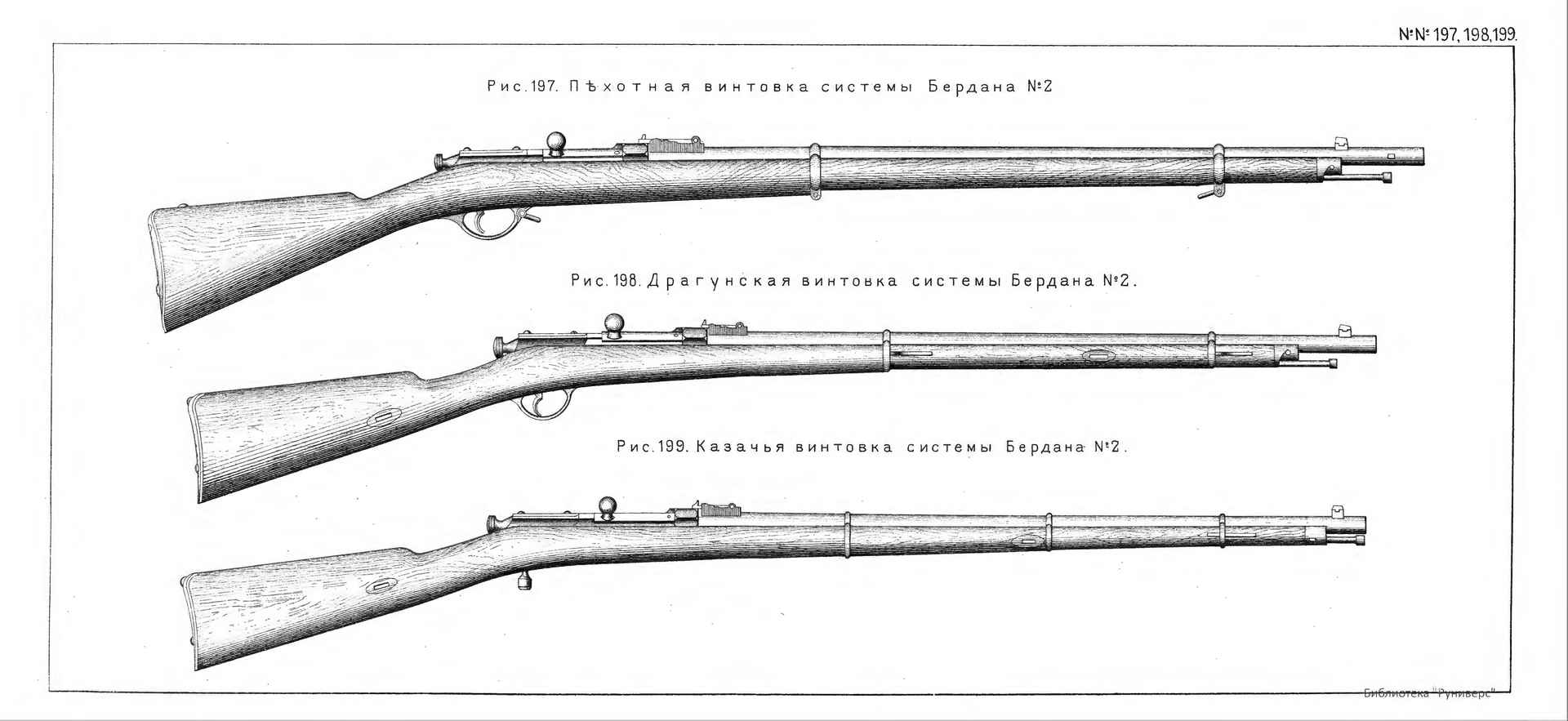 Russian Army Berdan No.2 rifle: infantry, dragoon, and cossack